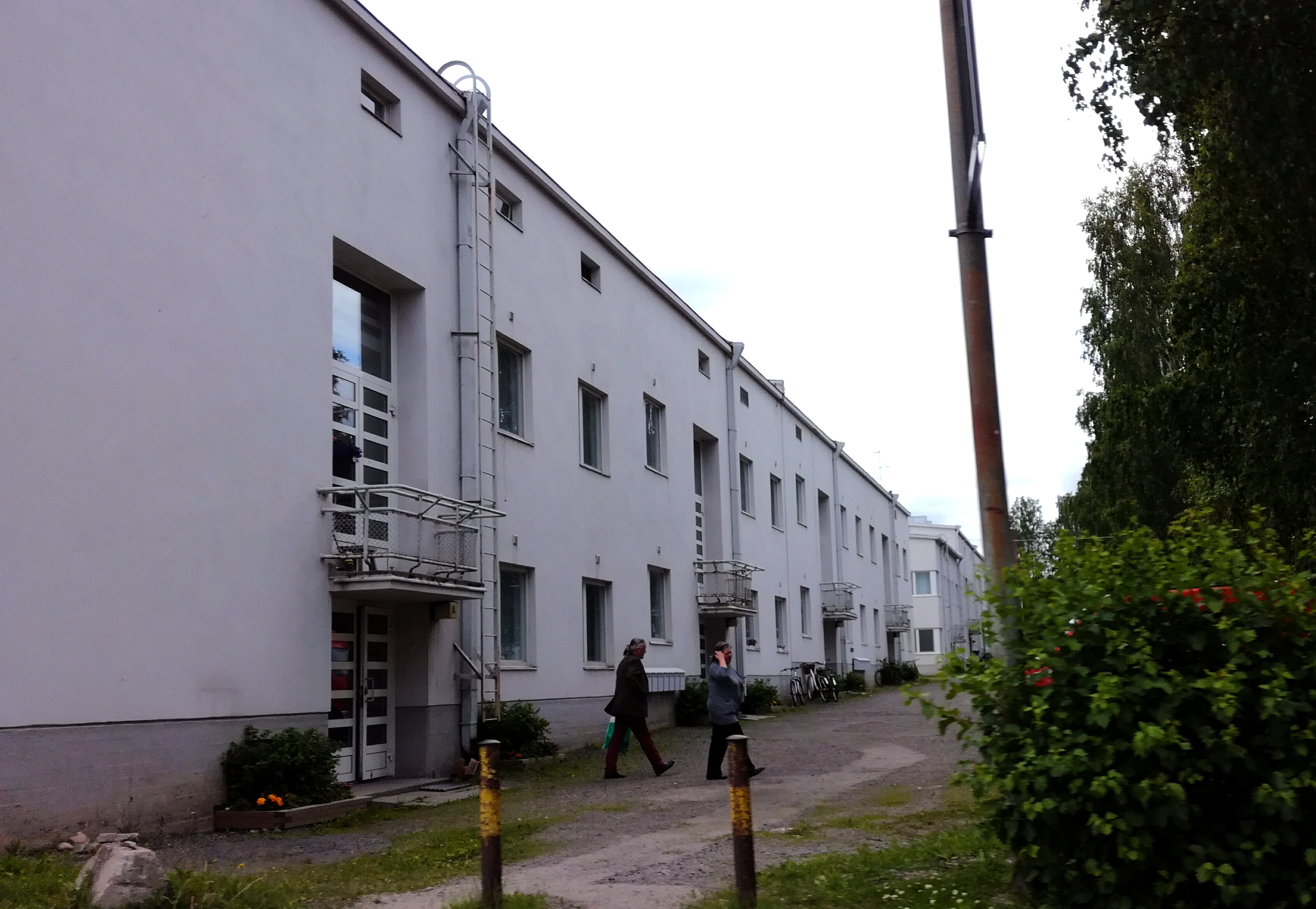 Rautpohja